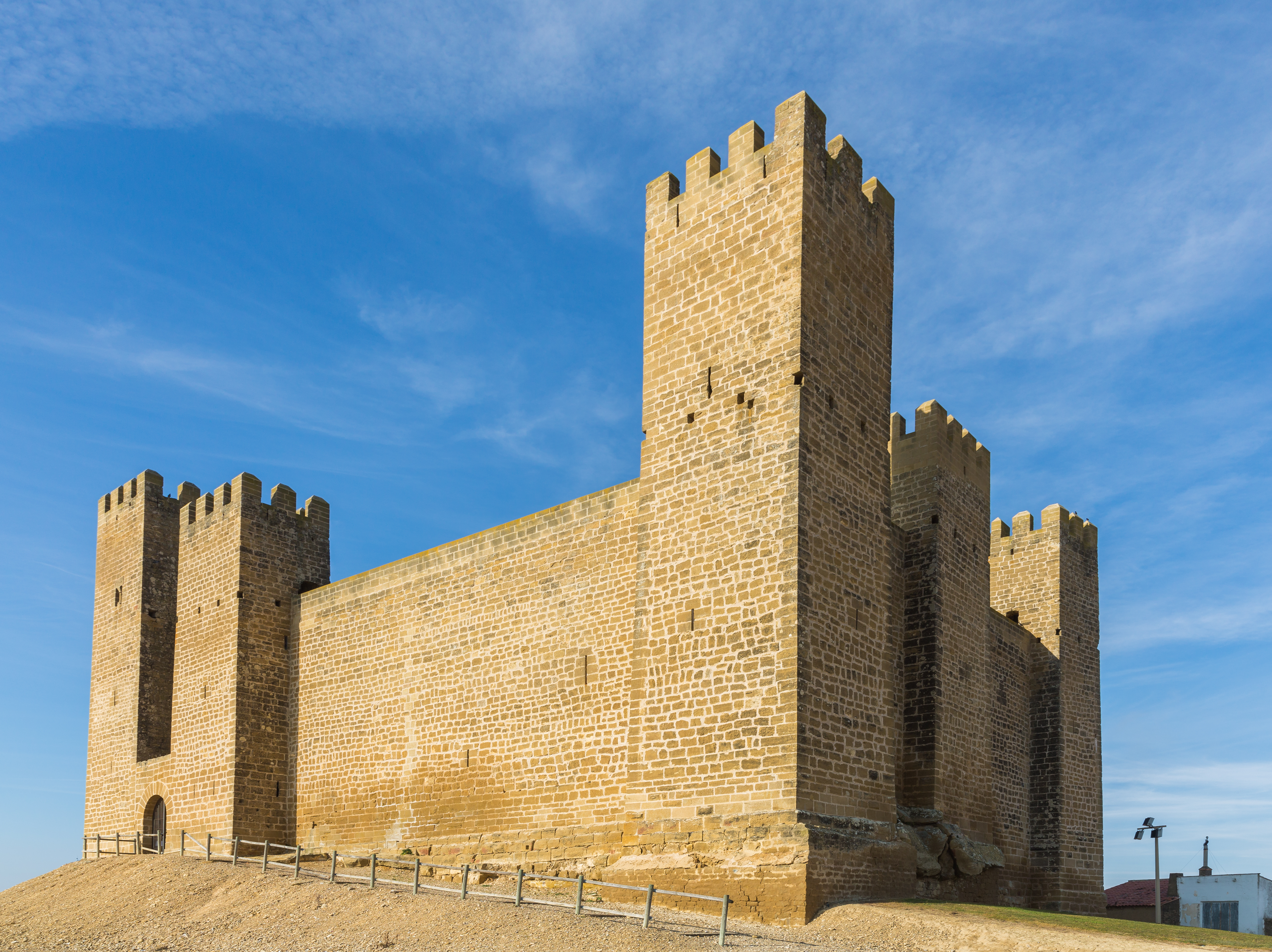 Castle of Sádaba, Huesca, Spain